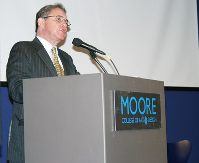 Alan Butkovitz at Moore College of Art and Design.